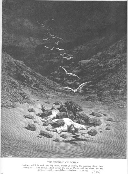 Achan Is Stoned to Death. Portrait done over Joshua 7:24-26 by Gustave Dore'. Then Joshua and all Israel with him took Achan son of Zerah, with the silver, the mantle, and the bar of gold, together with his sons and daughters, his oxen, his donkeys, and his sheep, his tent, and everything he had... Then all the Israelites stoned him to death; and they raised over him a great cairn of stones which is there to this day. (Joshua 7:24-26)